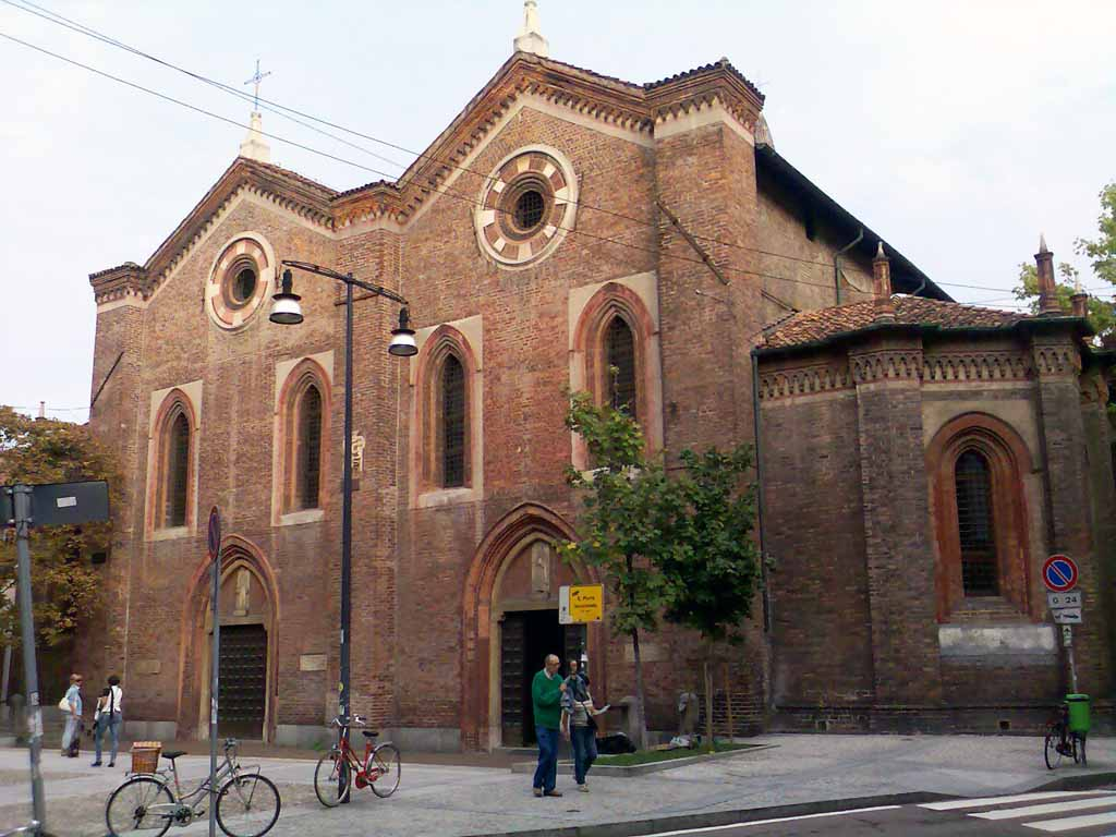 Facade of the church Santa Maria Incoronata, Milan, Italy